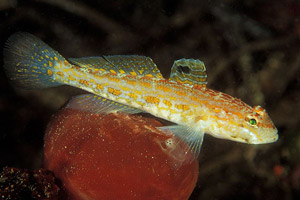 Picture of Gobius kolombatovici